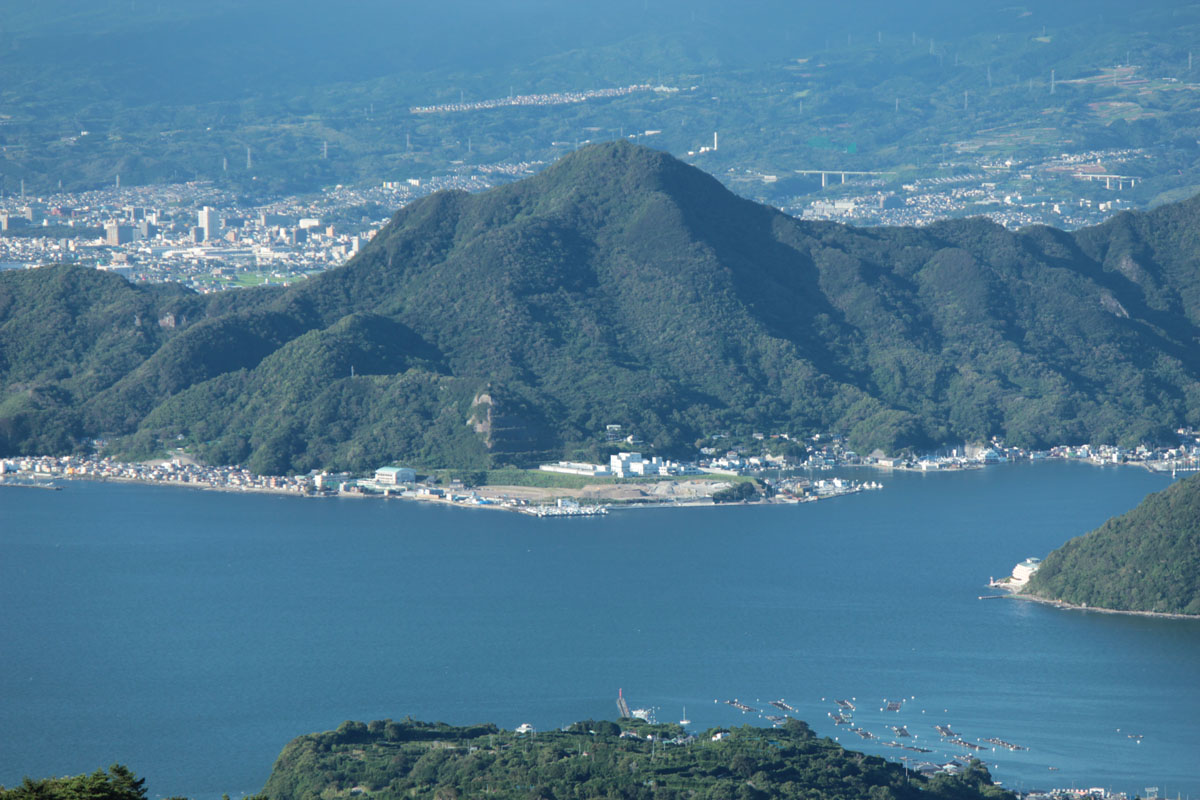 Mount Washizu as seen from the SSW in Numazu, Shizuoka Prefecture. Taken from Darumayama-kogen Rest House.